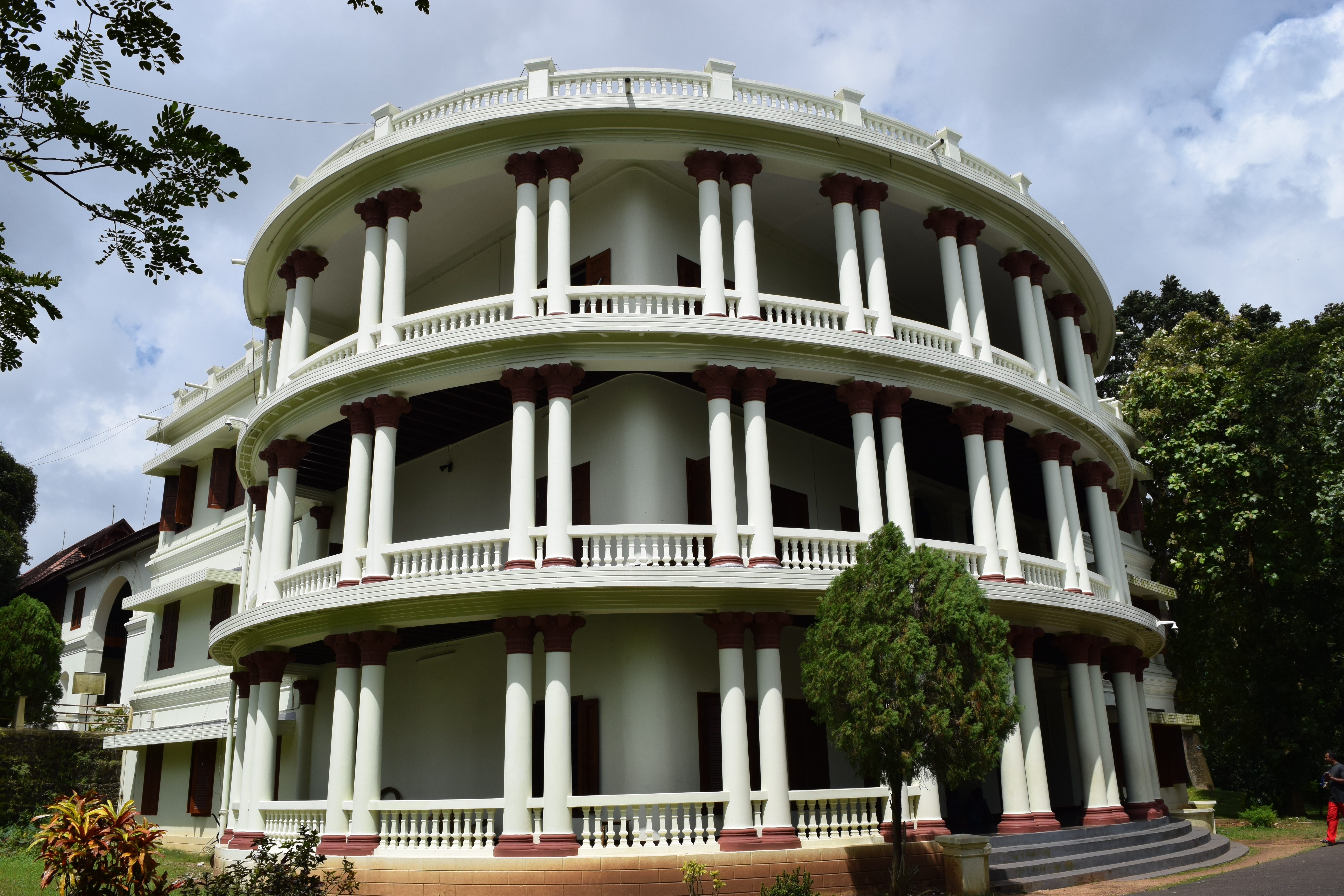 Hill Palace Museum is the largest archaeological museum in Kerala, at Tripunithura, Kochi.